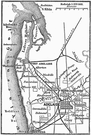 Map of Adelaide (1:320,000 scale)